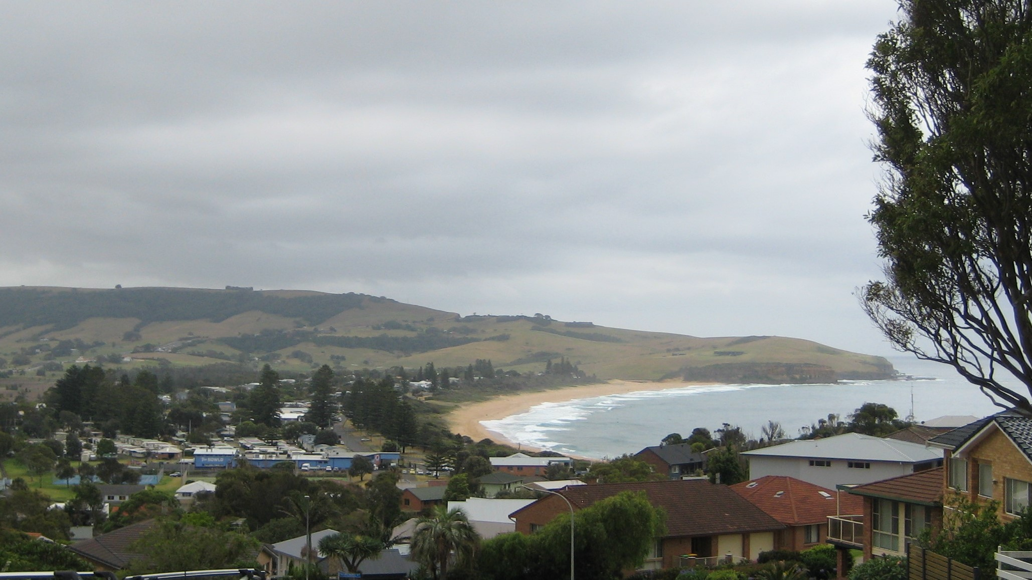 Gerringong headland and Werri Beach